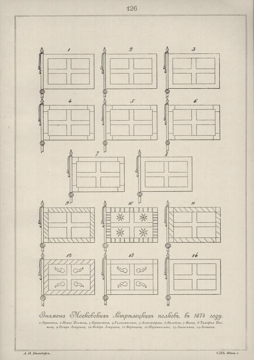 Colours of Streltsy.